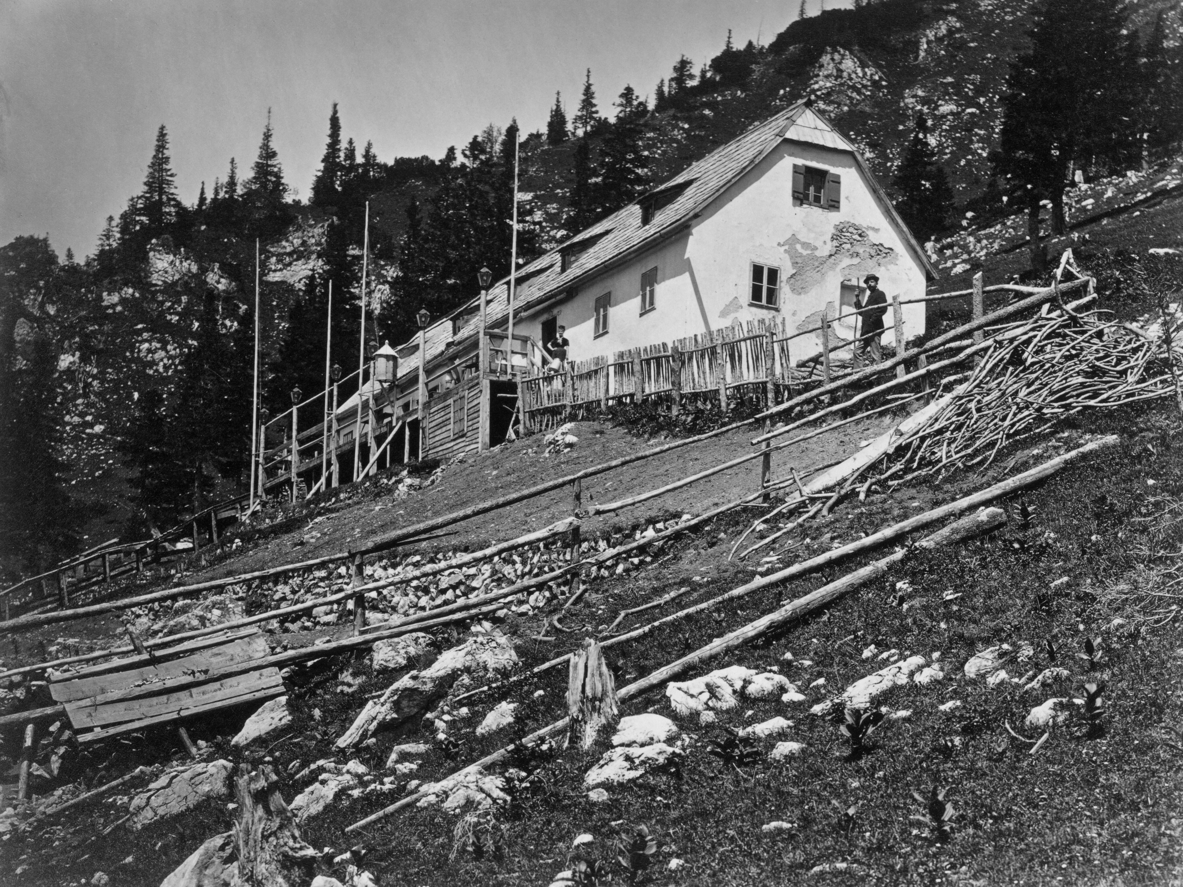 Baumgartnerhaus on the Schneeberg, Lower Austria, before extension